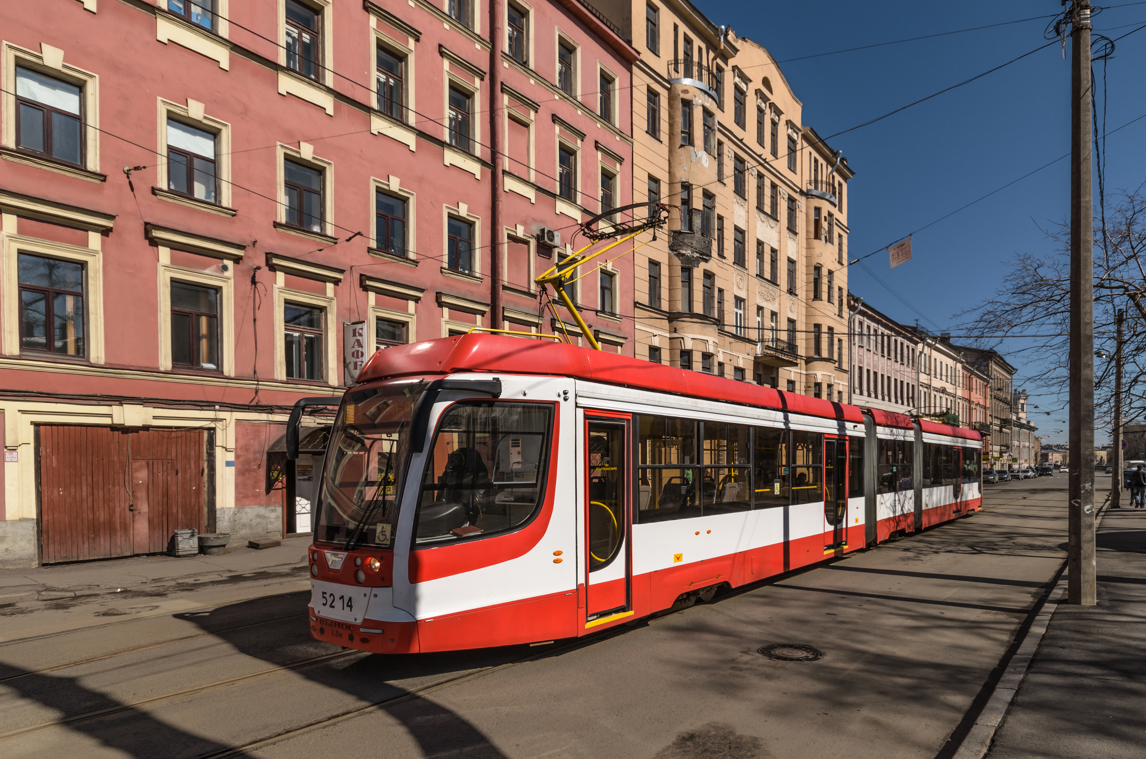 Tram 71-631-02 (KTM-31) on Repina Square in Saint Petersburg